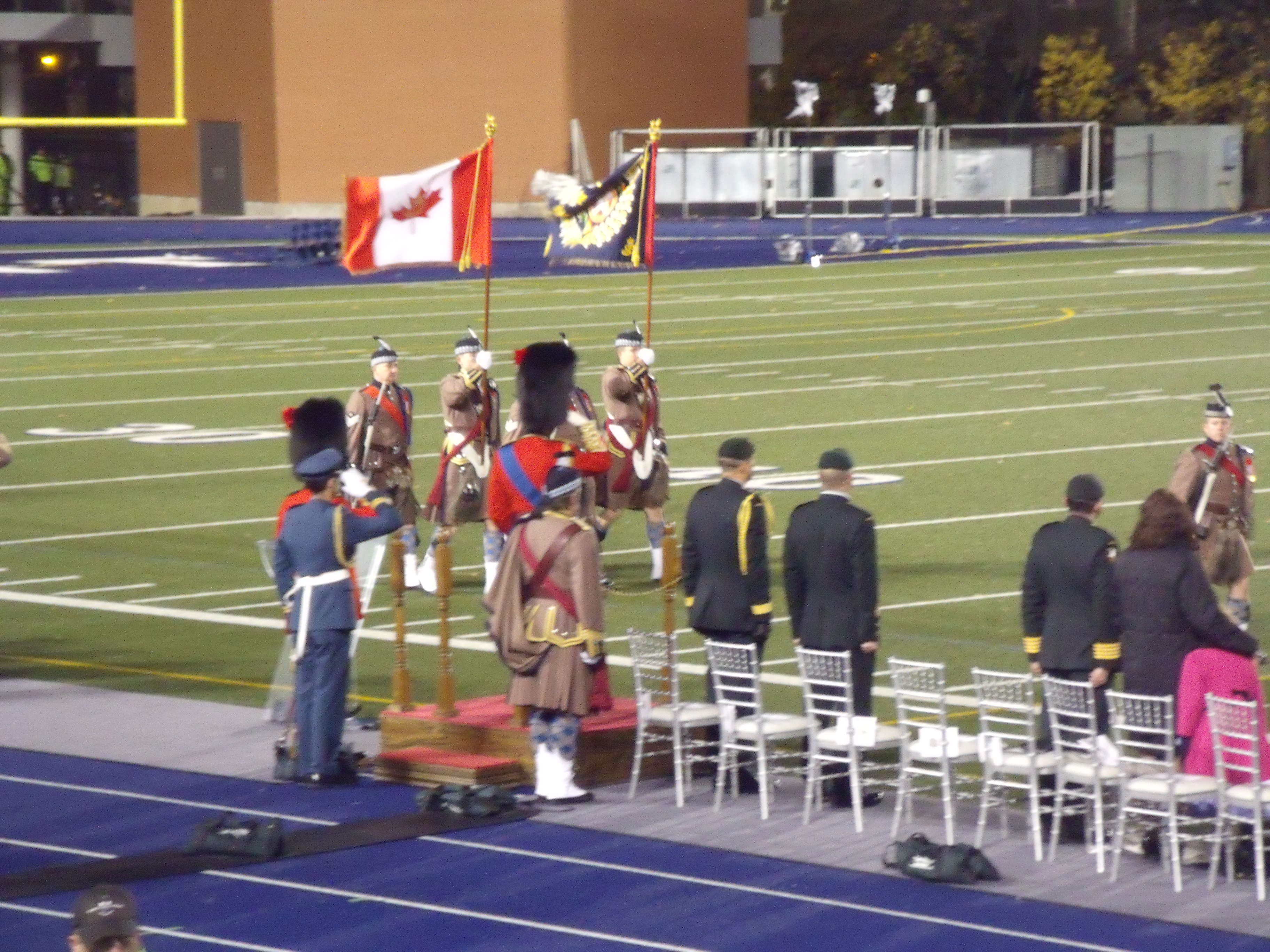 The Toronto Scottish Regiment (Queen Elizabeth the Queen Mother's Own) marches past the Prince of Wales